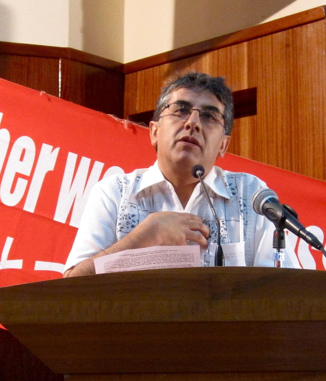 Pablo Solon, Ambassador of the Plurinational State of Bolivia to the United Nations, speaking at the 2011 World Social Forum in Dakar, Senegal.